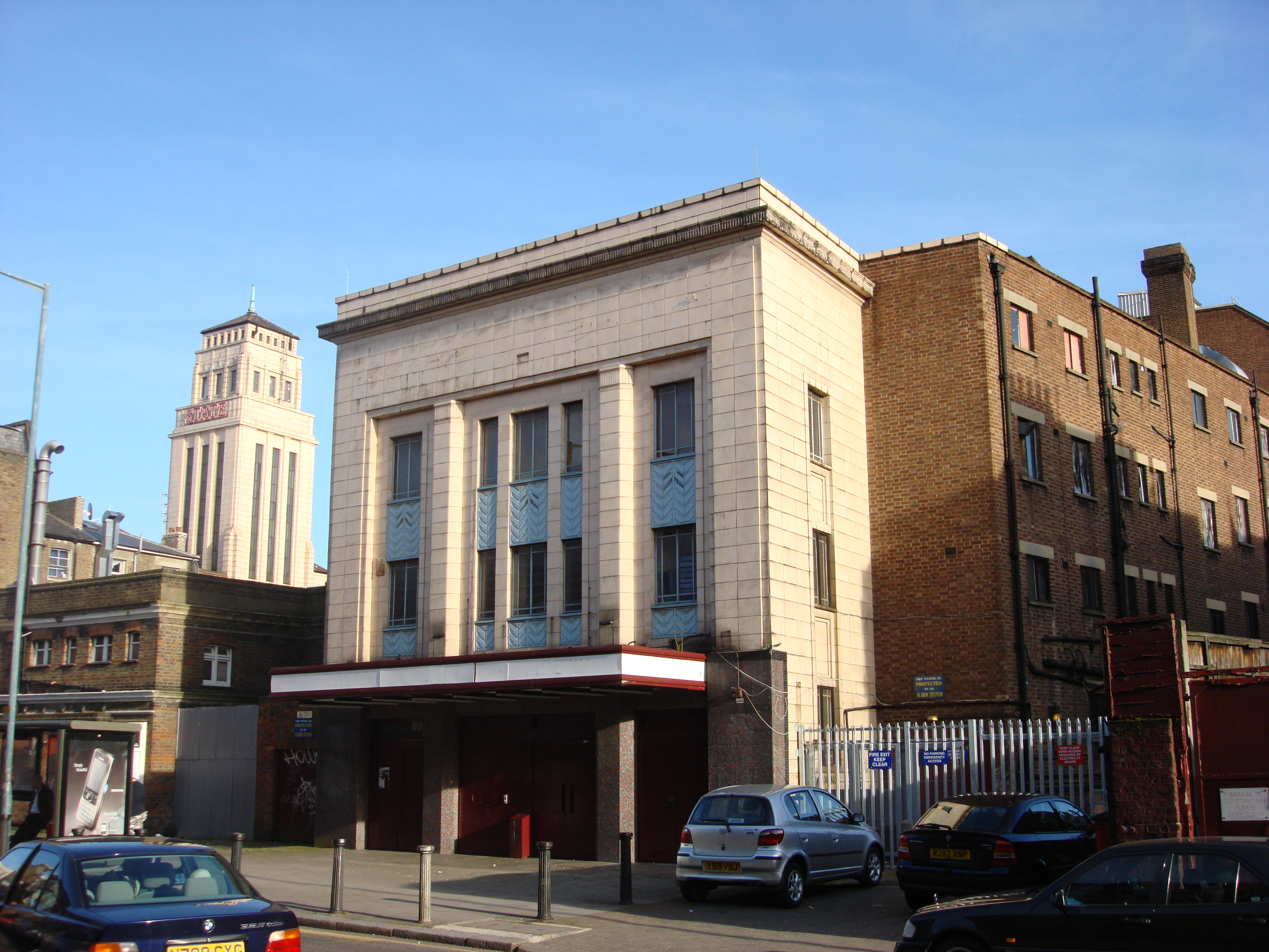 Third class entrance to the former Gaumont State Cinema, Kilburn, London